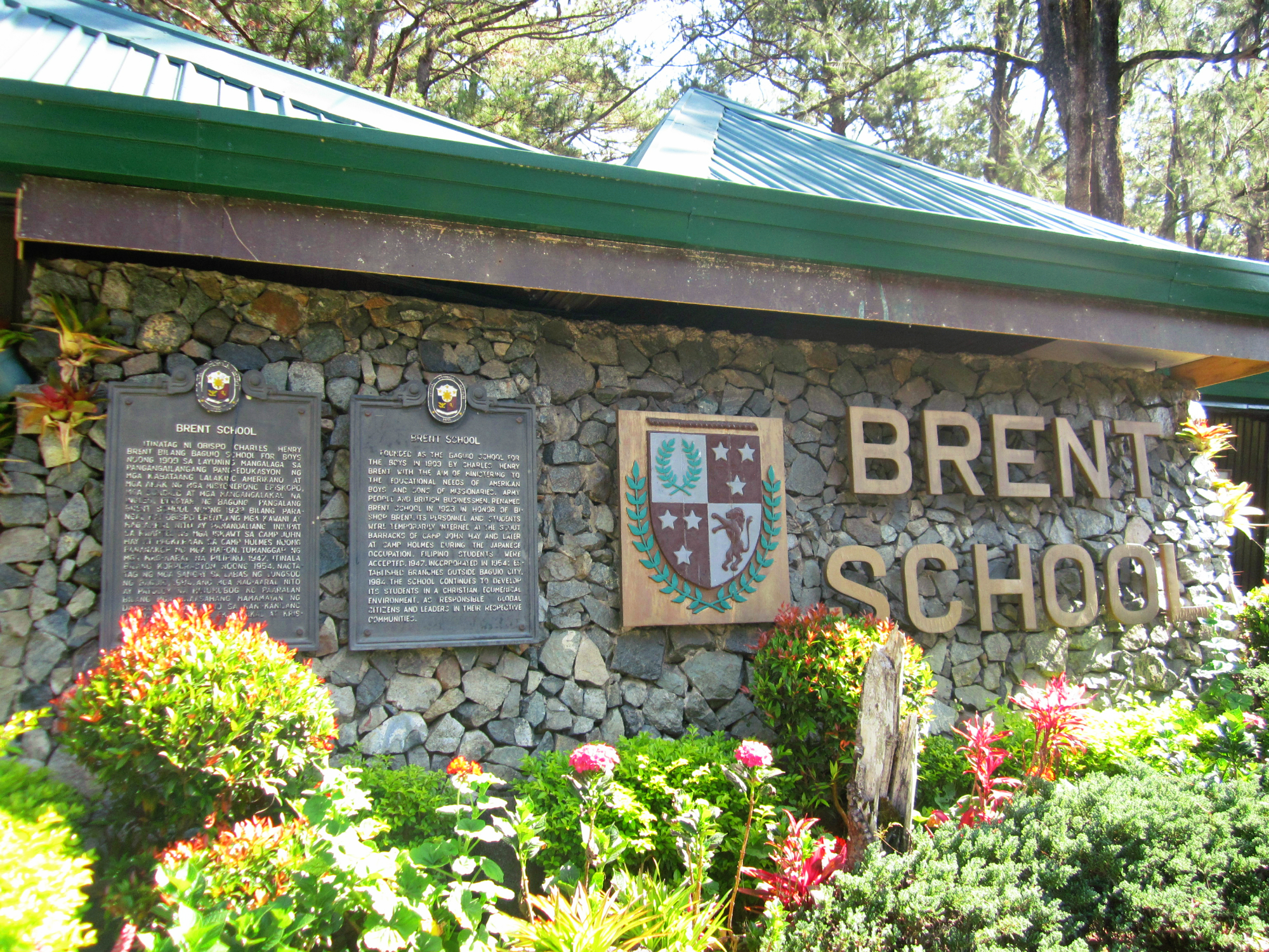 Brent International school in Baguio City.